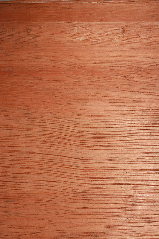 Peroba Rosa (Peroba Pink) - Brazilian wood - features: heavy, strong and good durability.